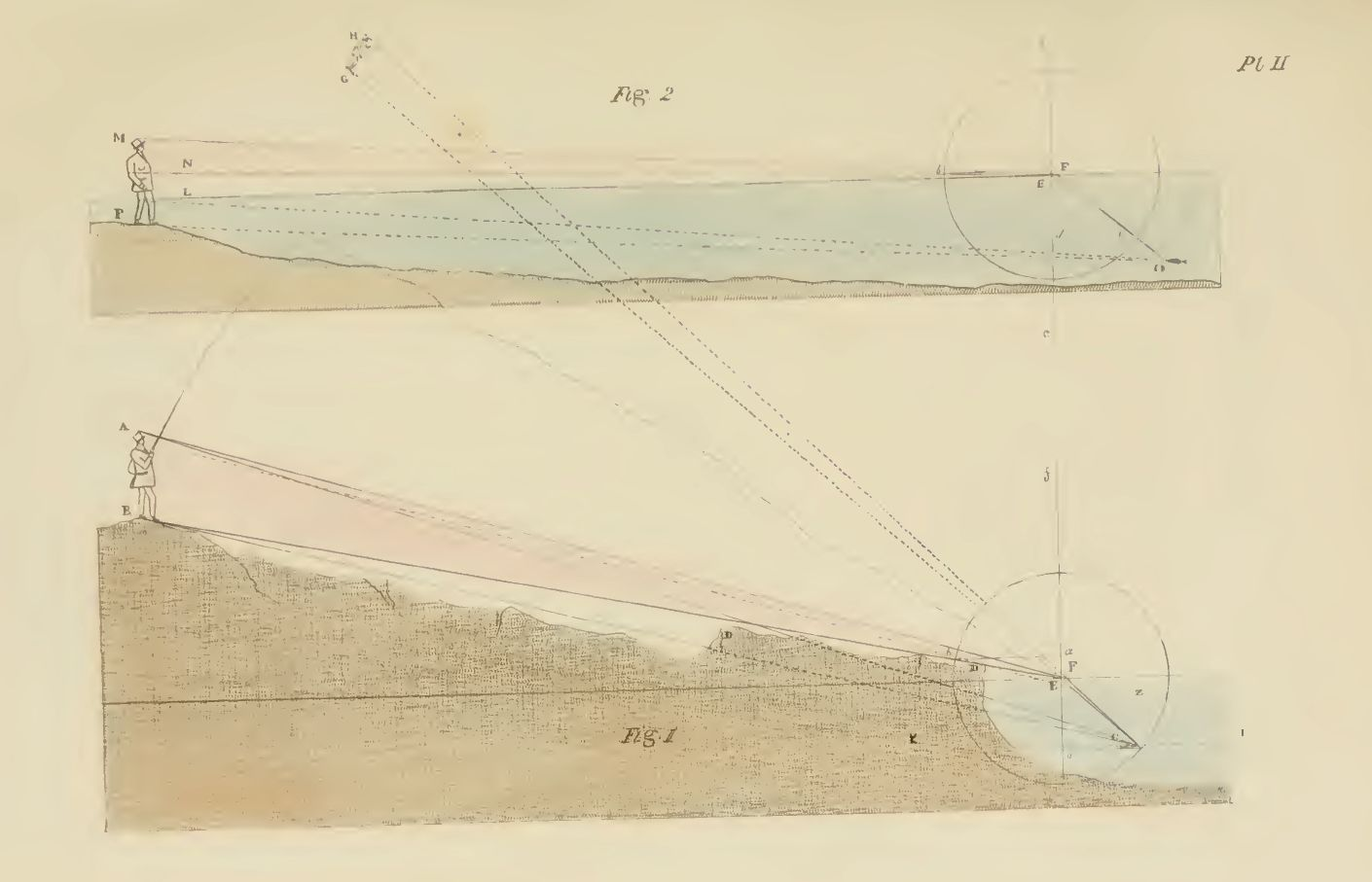 Plate II Optical Diagrams from The Fly-fisher's Entomology, 1849 by Alfred Ronalds.